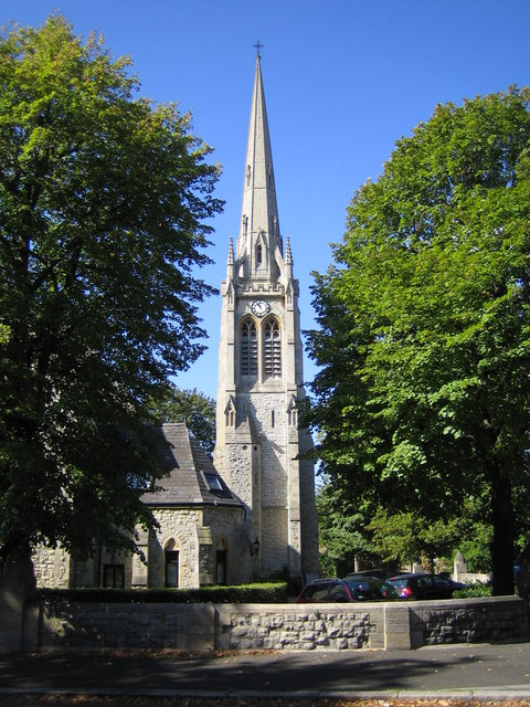 Northwest tower and spire of St Stephen's Court, St Stephen's Avenue, West Ealing, London W13. St Stephen's was built as a parish church in 1876 and the spire was added in 1891. Late in the 20th century the congregation moved out to a new building on the opposite side of the road, and the old building was converted into residential apartments.